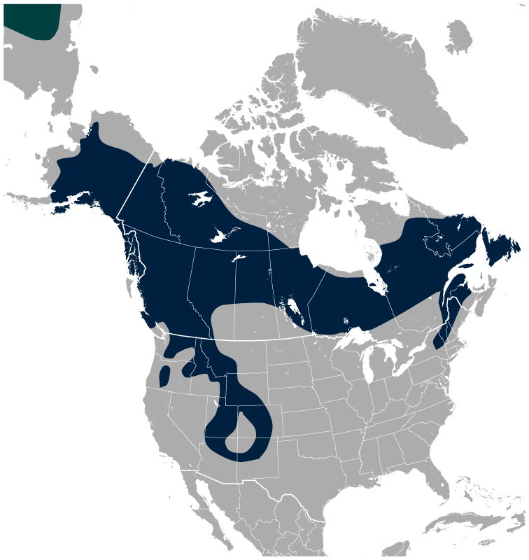 Geographical distribution of the American Three-toed Woodpecker Picoides dorsalis (navy). A small portion of the Eurasian Three-toed Woodpecker Picoides tridactylus range is visible in the upper left corner (deep cyan). Includes state and province borders. Note: IUCN does not recognize Picoides dorsalis as separate species. The map was created using the Generic Mapping Tools, GMT, version 5.1.2.